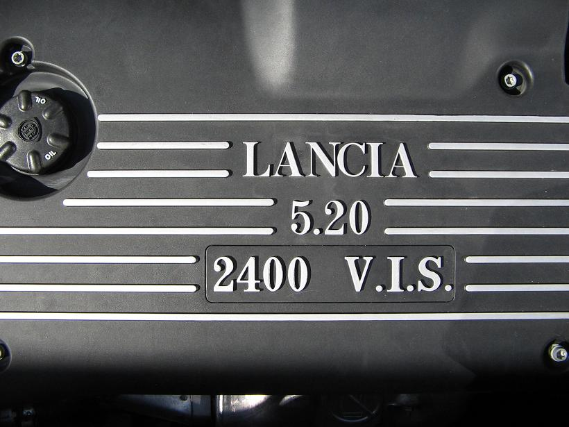 The Bodoni-font used on a Lancia engine.